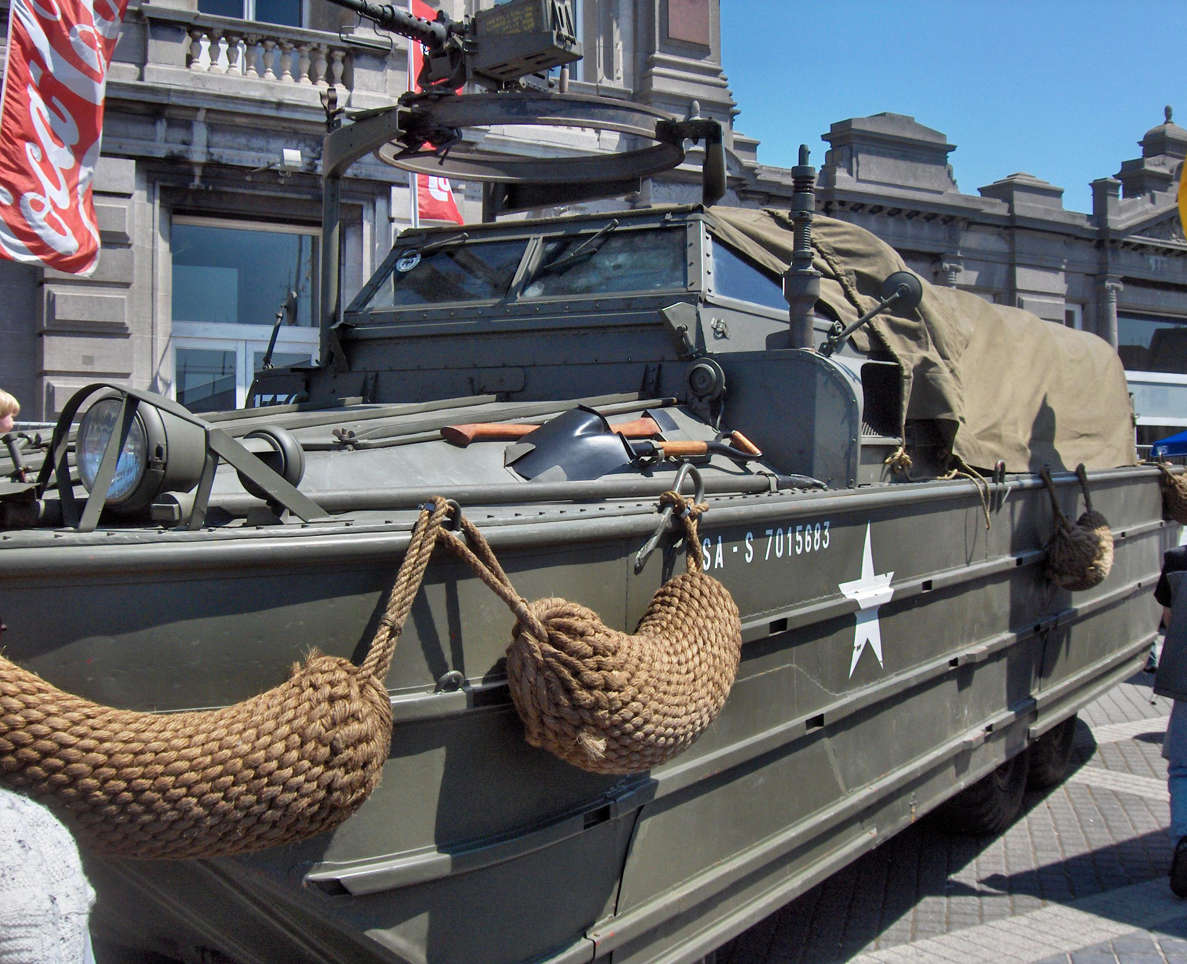 DUKW, amphibious truck of the Belgian Army